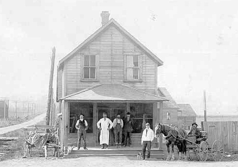 Undated historic photograph of Porter's General Store in what is now known as Murrayville, Langley, BC.